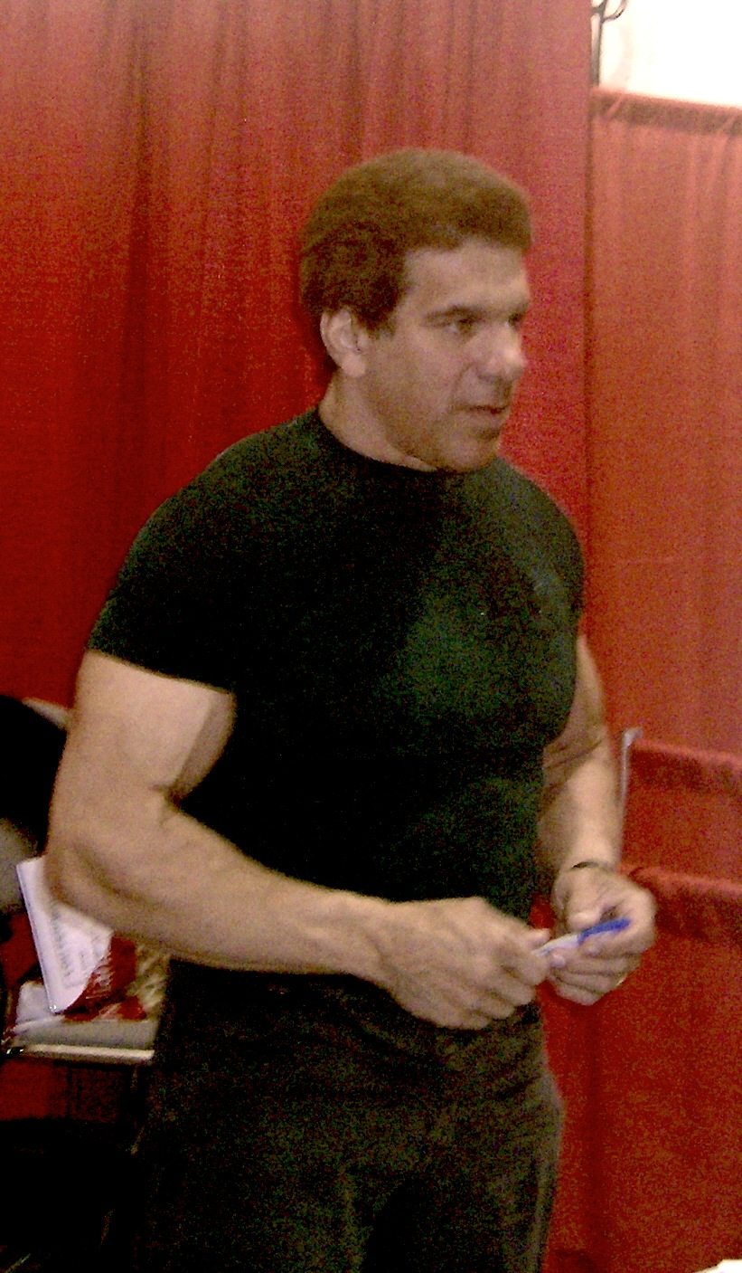 Lou_Ferrigno at the Calgary Comic & Entertainment Expo 2007